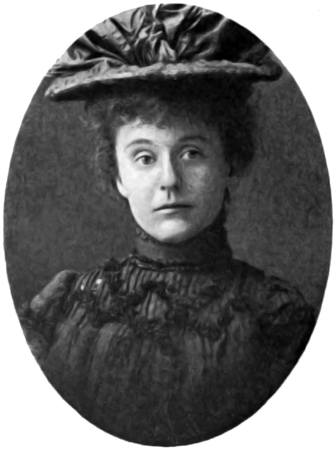 Photograph of Frances Theodora Parsons appearing as the the frontspiece in The Fern Bulletin, Vol X, No. 1, Jan. 1902